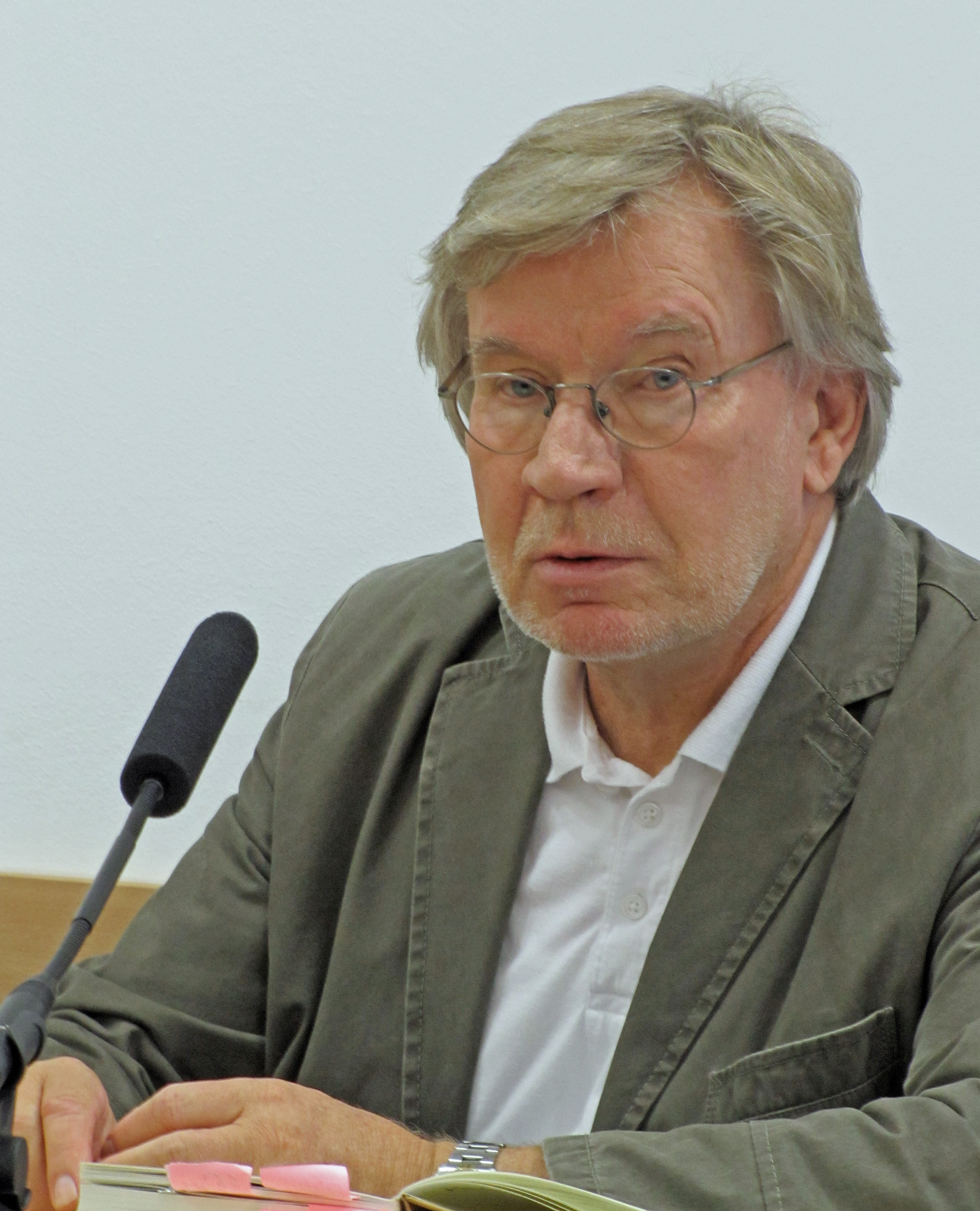 Juergen Petschull, German writer, 2010 in Frankfurt am Main.